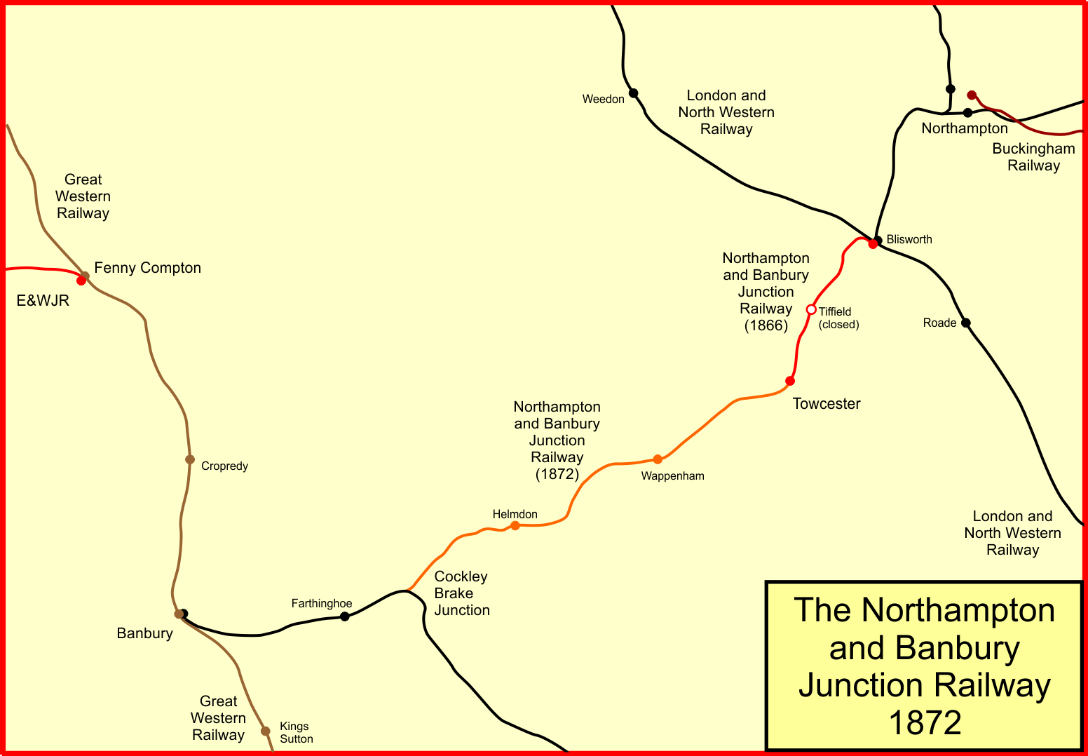 System map of the Northampton and Banbury Junction Railway, England, in 1872